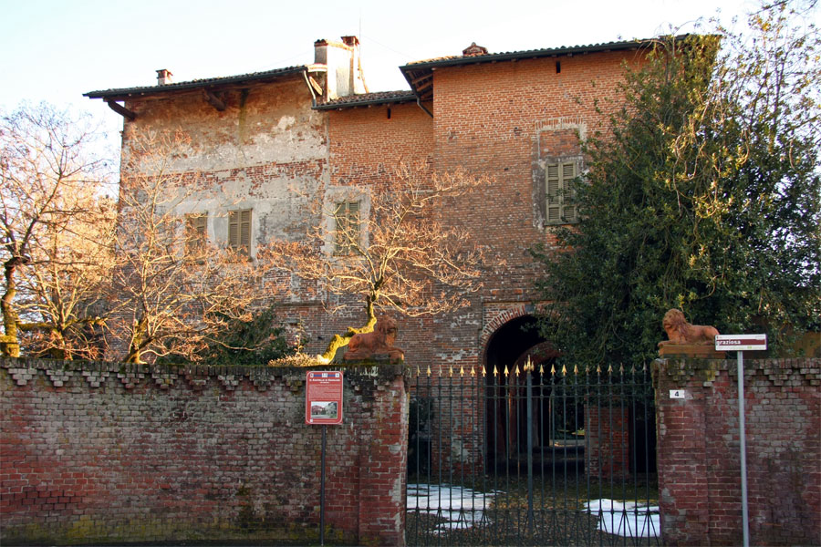 Castle, Casalino, Novara, Italy